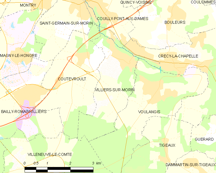 Map of French municipality Villiers-sur-Morin